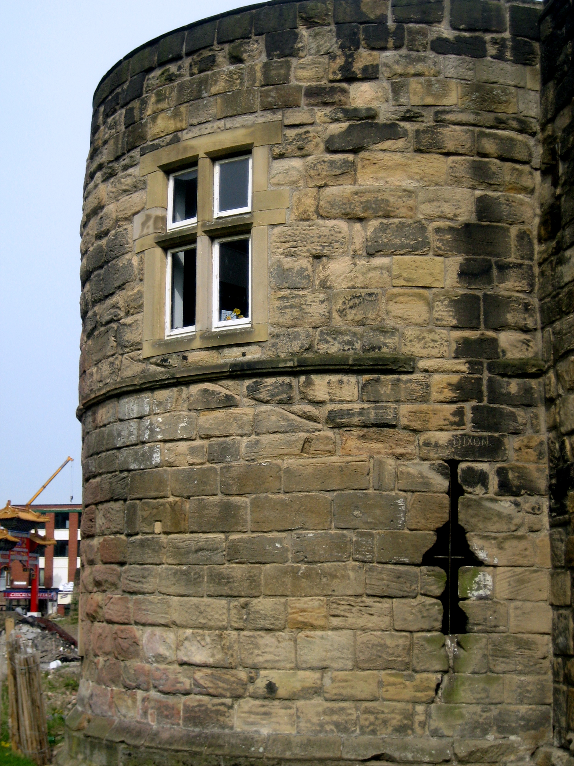 Newcastle's venerable poetry venue